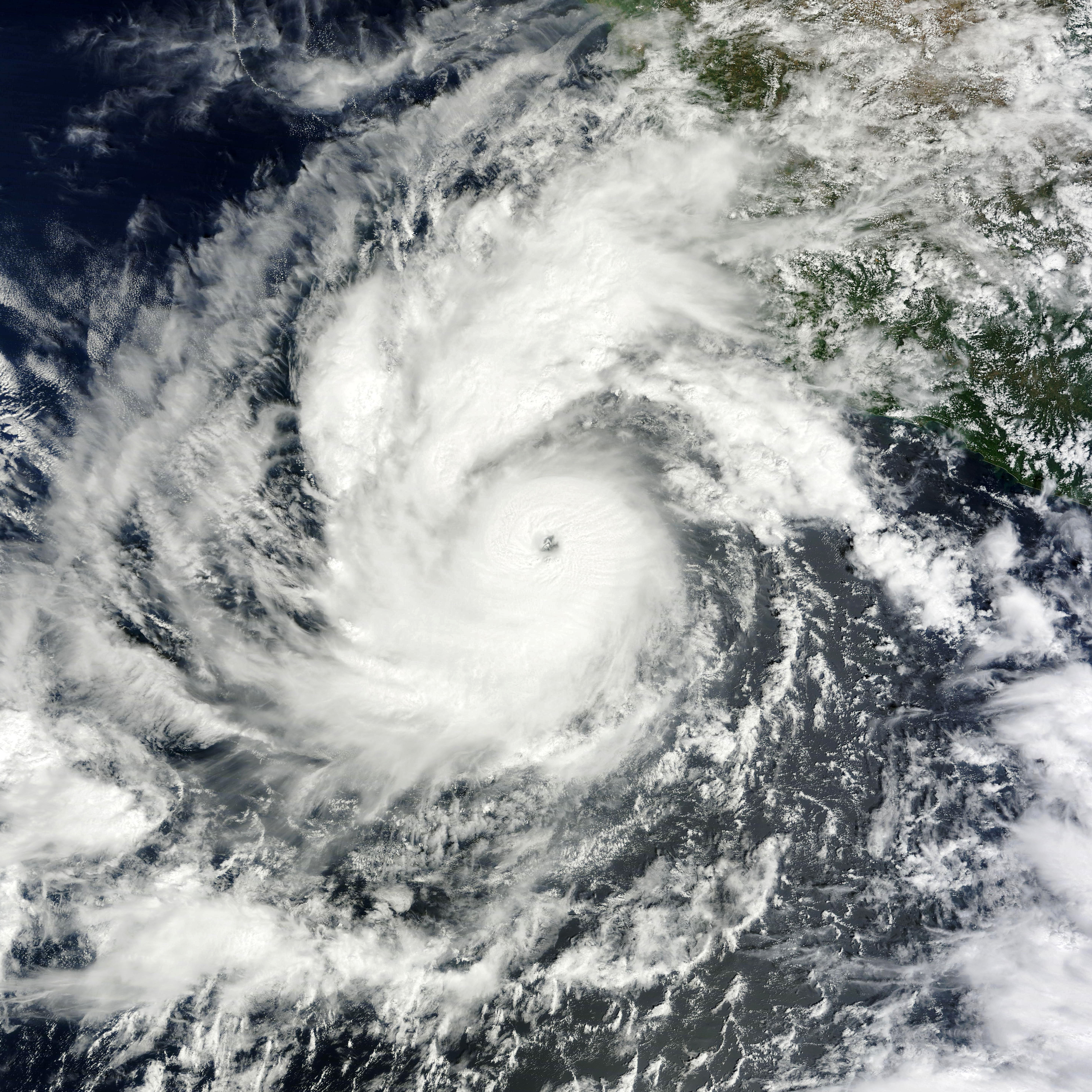 On October 6, 2011, a tropical depression over the eastern Pacific Ocean strengthened into Tropical Storm Jova. On October 8, it became a hurricane. By 11:00 a.m. Pacific Daylight Time (PDT) on October 10, 2011, the U.S. National Hurricane Center (NHC) reported that Jova was a Category 3 storm headed for the southwestern coast of Mexico. The Moderate Resolution Imaging Spectroradiometer (MODIS) on NASA’s Terra satellite captured this natural-color image at 10:40 a.m. Pacific Daylight Time on October 10, 2011. Jova sports the spiral shape and distinct eye characteristic of strong storms. In the northeast quadrant, the storm’s clouds graze the coast of Mexico. As of 11:00 a.m. PDT on October 10, Jova had maximum sustained winds of 125 miles (205 kilometers) per hour, and was located roughly 220 miles (255 kilometers) southwest of Manzanillo, Mexico. A hurricane warning was in effect from Punta San Telmo north to Cabo Corrientes, and a tropical storm warning was in effect for Lazaro Cardenas north to Punta San Telmo. The NHC stated that the storm could become a Category 4 hurricane before making landfall on October 11.